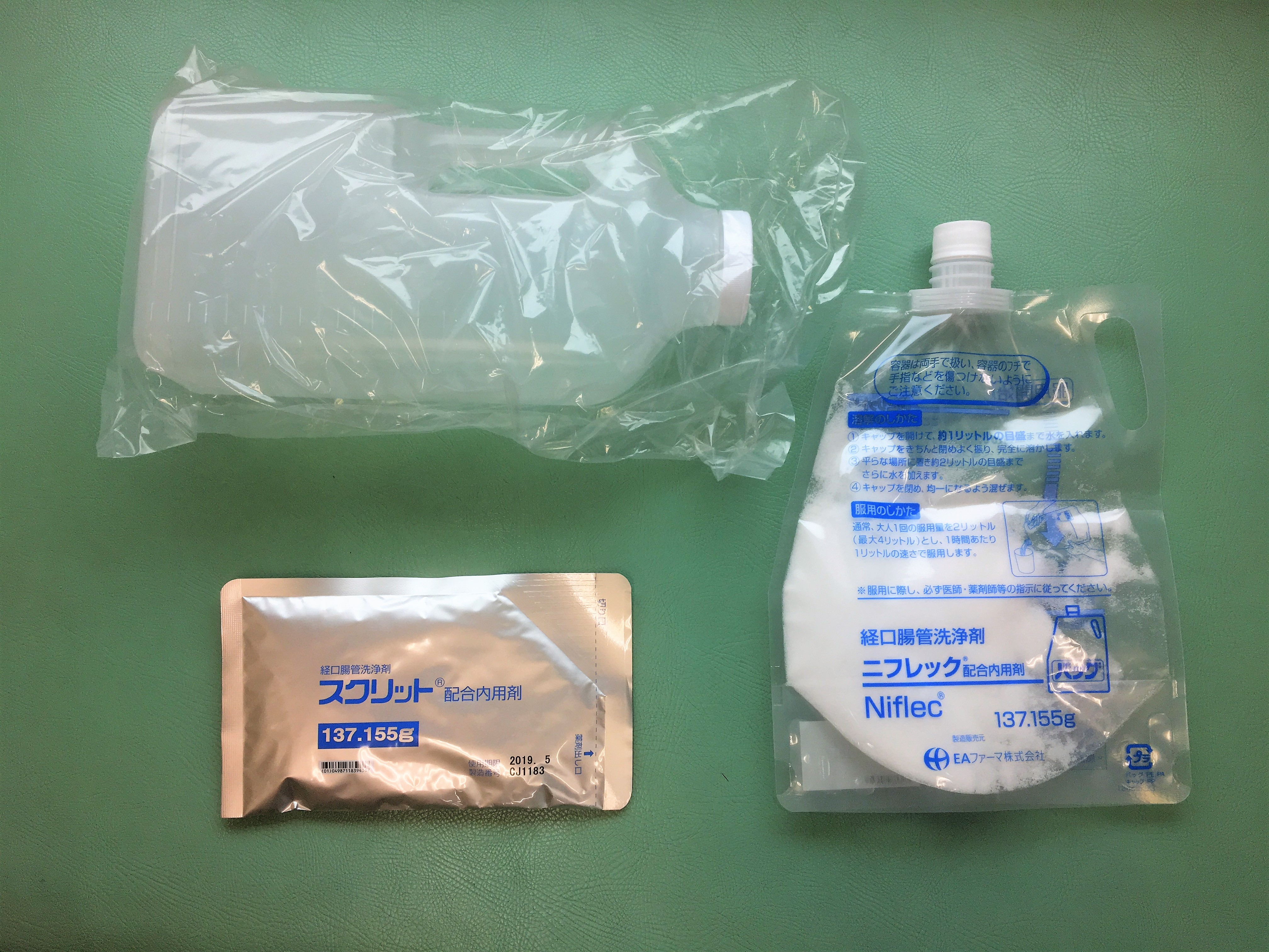 Drug for Whole bowel irrigation, Leftside "SCRIT".Right side "Niflec". The main components of both products are Anhydrous Sodium Sulfate, etc. Contains a small amount of PEG. Products manufactured and distributed in Japan.